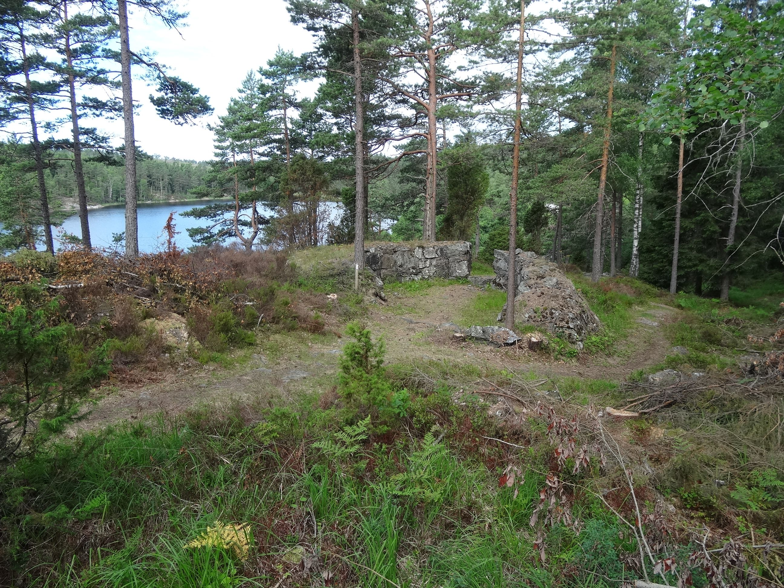 Prepared firingposition for 37 mm antitank-gun